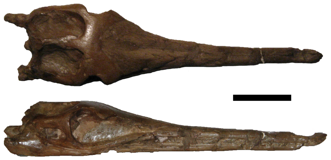 Rhacheosaurus gracilis, referred specimen NHMUK PV R3948 (NHMUK, Natural History Museum, London, United Kingdom)